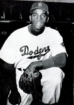 Brooklyn Dodgers pitcher Joe Black in a 1953 issue of Baseball Digest.